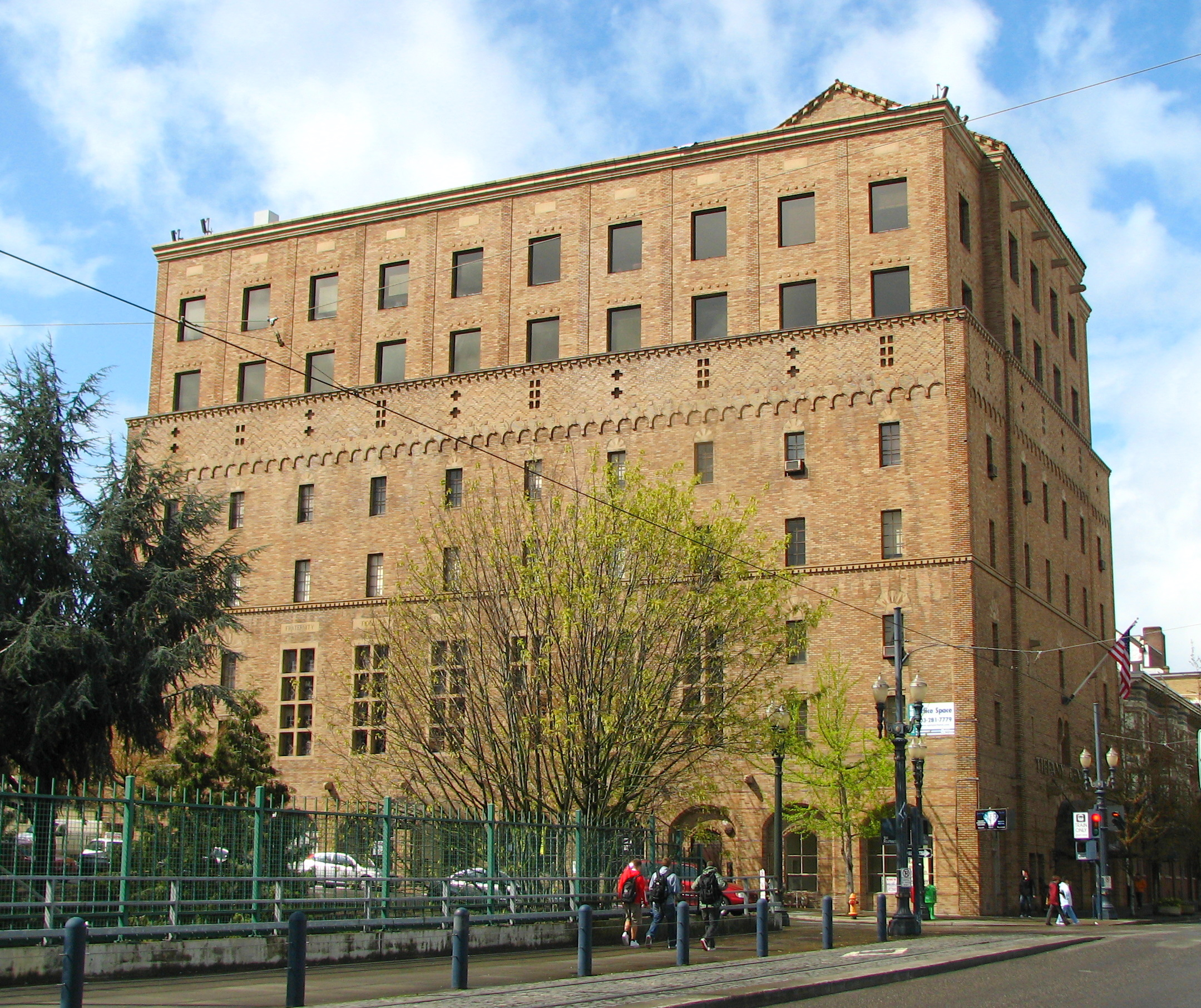 The historic Neighbors of Woodcraft Building (built 1928), located at 1410-1412 Southwest Morrison Street in Portland, Oregon, United States, is listed on the US National Register of Historic Places. As of 2010, it is no longer a fraternal structure, but is operated as a commercial event venue.